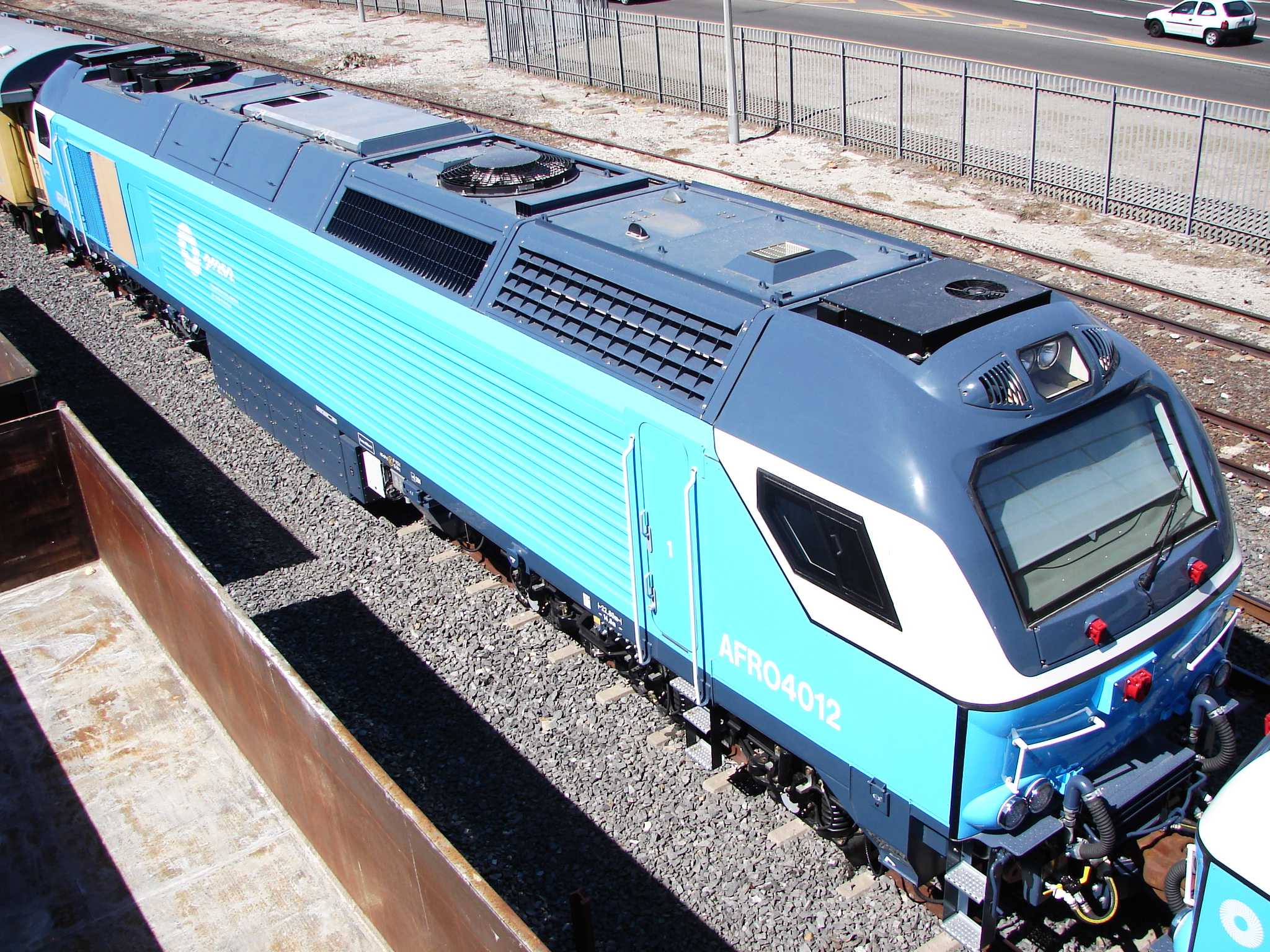 PRASA Class Afro4000 no. 4012 at Table Bay Harbour, Cape Town, shortly after coming ashore from Spain